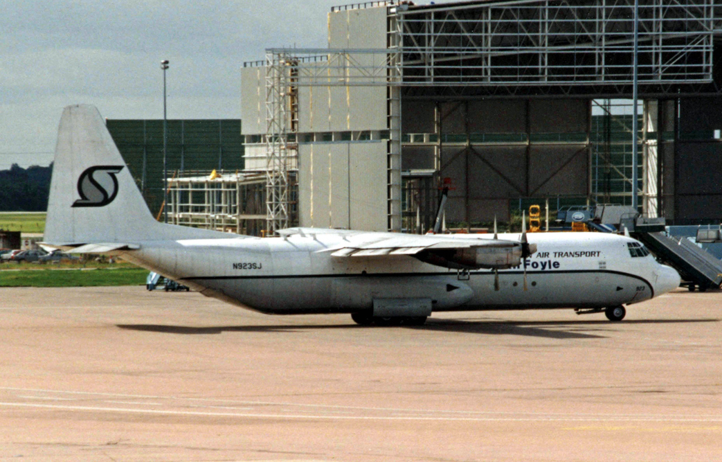 Lockheed L-100-30 N923SJ of Southern Air Transport operating a freight charter flight at Manchester Airport in 1994